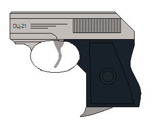 ОЦ-21 pistol